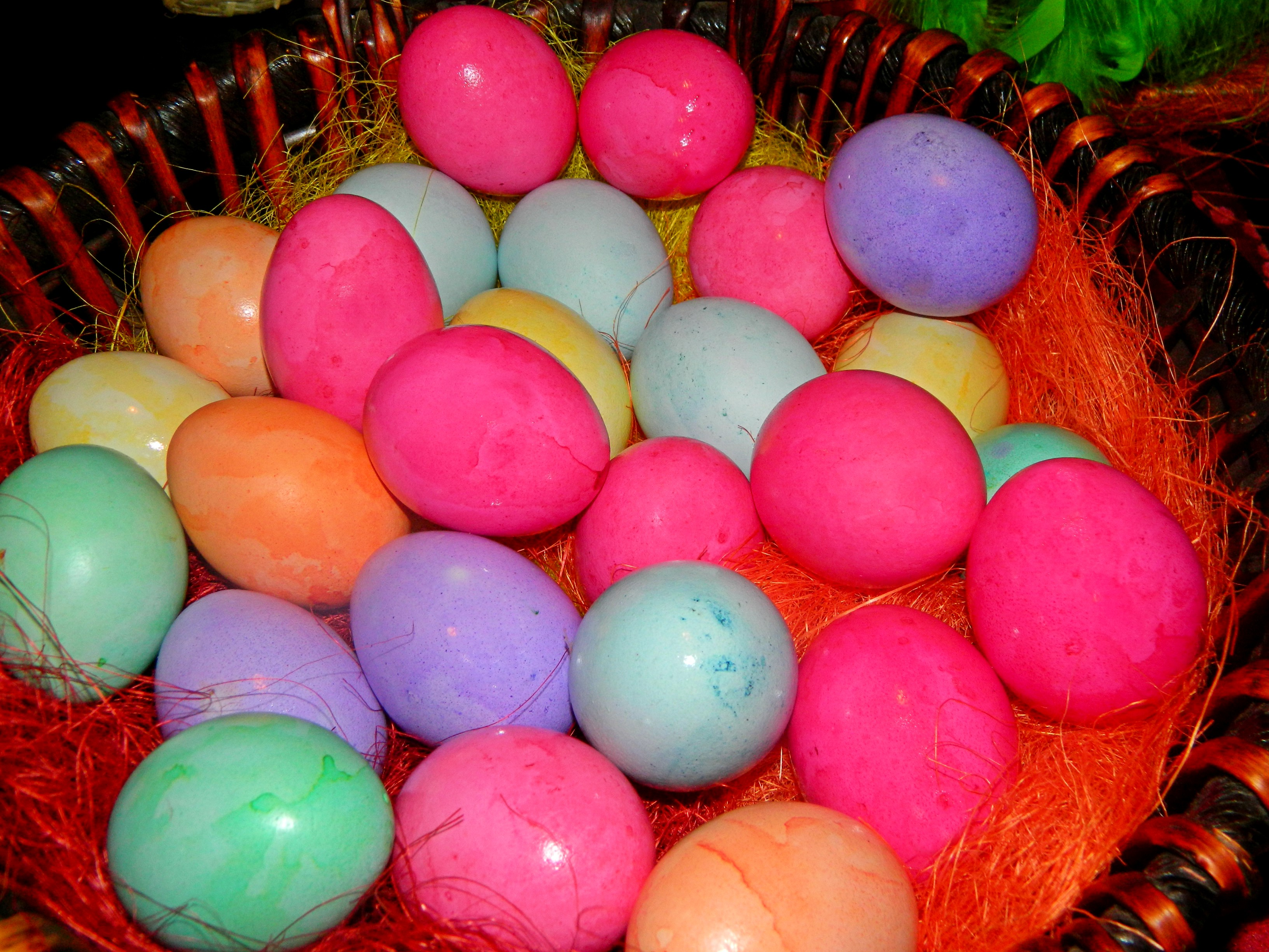 Easter Eggs